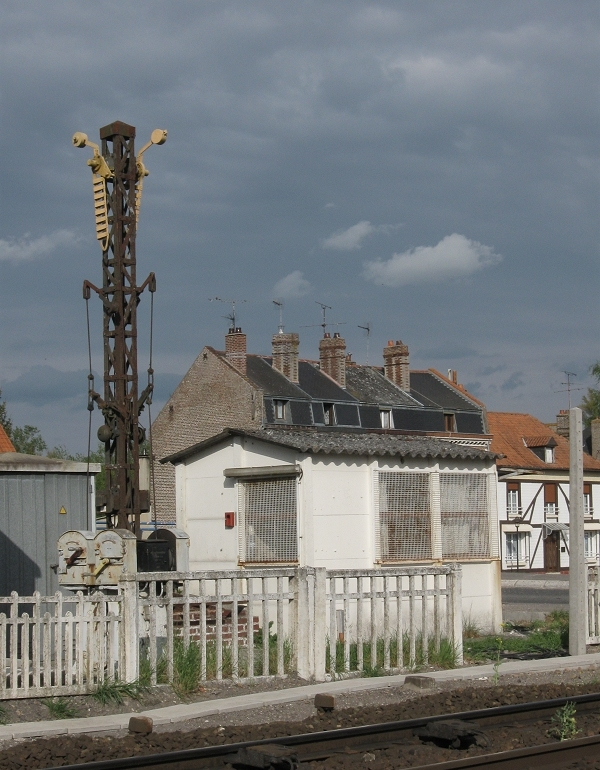 Outdoor electro-semaphore (scalped mast) used with french Lartigue block-system. Picquigny (Amiens - Boulogne).